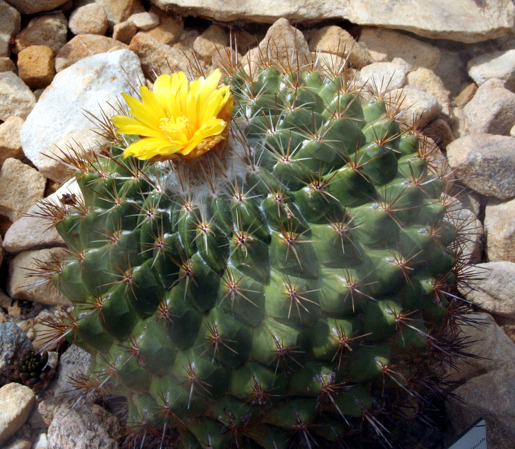 Thelocactus conothelos ssp. aurantiacus im Botanischen Garten Dresden